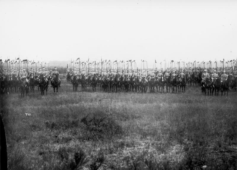 Guard Uhlans in field equipment and grey uniforms during manoeuvres of the Guard Corps of the Imperial German Army near Döberitz, circa 1912